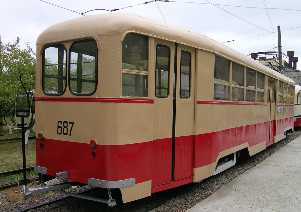 The rear right view of LM-49 tramcar